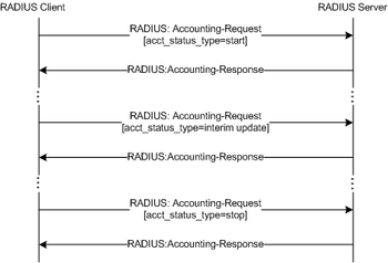 Accounting